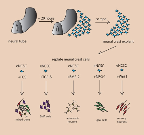 Schematic depiction of an in vitro culture system used to isolate NCSCs. The neural tube is isolated from a rodent or avian embryo at a developmental stage before in vivo neural crest cell delamination. After plating the neural tube onto a substrate-coated plastic dish, NCSCs emigrate from the dorsal part of the neural tube to form a so-called neural crest explant. Subsequently, these cells can be trypsinized and plated as single cells at clonal density in a media supplemented with specific growth factors. In such an in vitro system, addition of fetal calf serum and/or chicken embryo extract results in mixed clones composed of several neural crest-derived lineages. In contrast, addition of instructive growth factors leads to the generation of specific lineages at the expense of other possible fates. For instance, TGF-β promotes a non-neural fate when added to a single NCSC. BMP2 promotes autonomic neurogenesis by upregulating the expression of the basic helix-loop-helix (bHLH) transcription factor Mash-1. NRG isoforms promote gliogenesis, while –at least in the mouse– canonical Wnt signaling induces sensory neurogenesis. Instructive growth factors for other fates, such as melanocytes and chondrocytes, have not been identified to date.